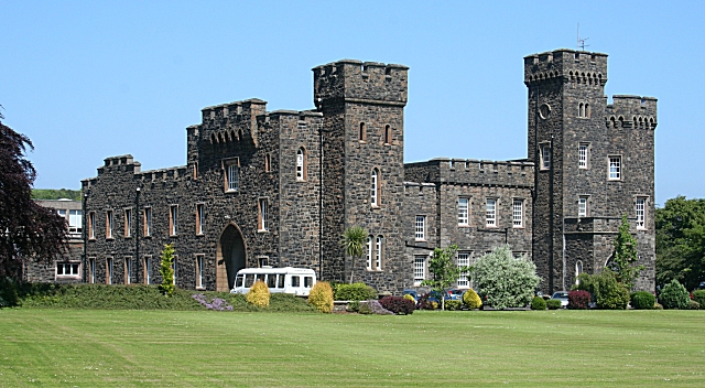 St MacNissi's College The former summer home of the Marchioness of Londonderry, Frances Anne Vane-Tempest, now houses a co-educational grammar school.